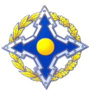 logo of the CSTO organization